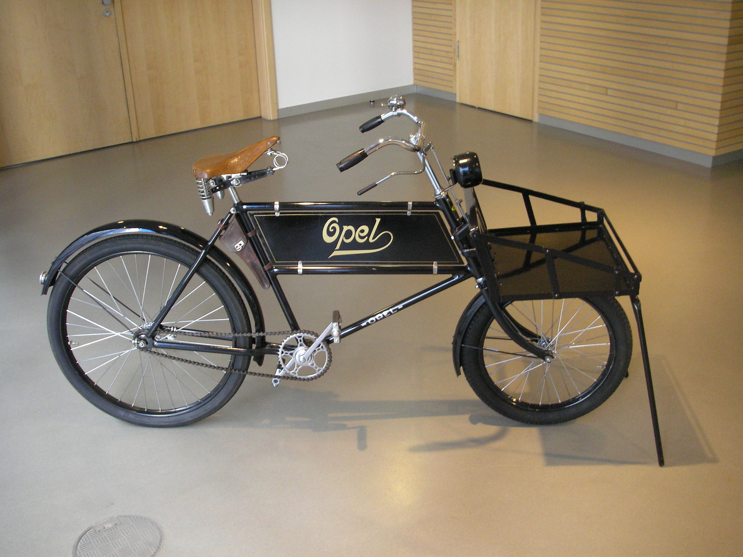 Opel bicycle. Production started in 1886. Standard models included the "Schwalbe", "Blitz", "Victoria", "Flor", "Chicago-Blitz", "ZR3".